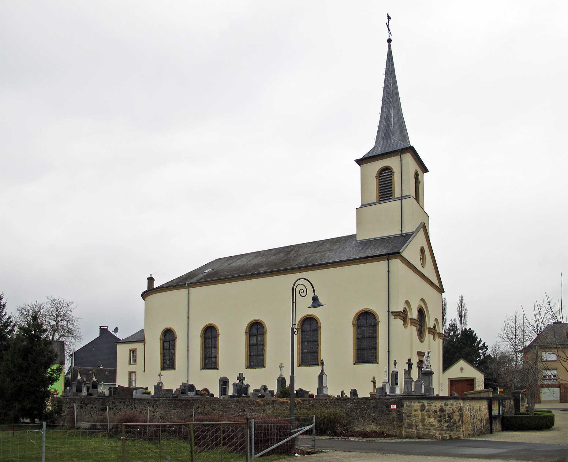 Church of Nospelt, Luxembourg